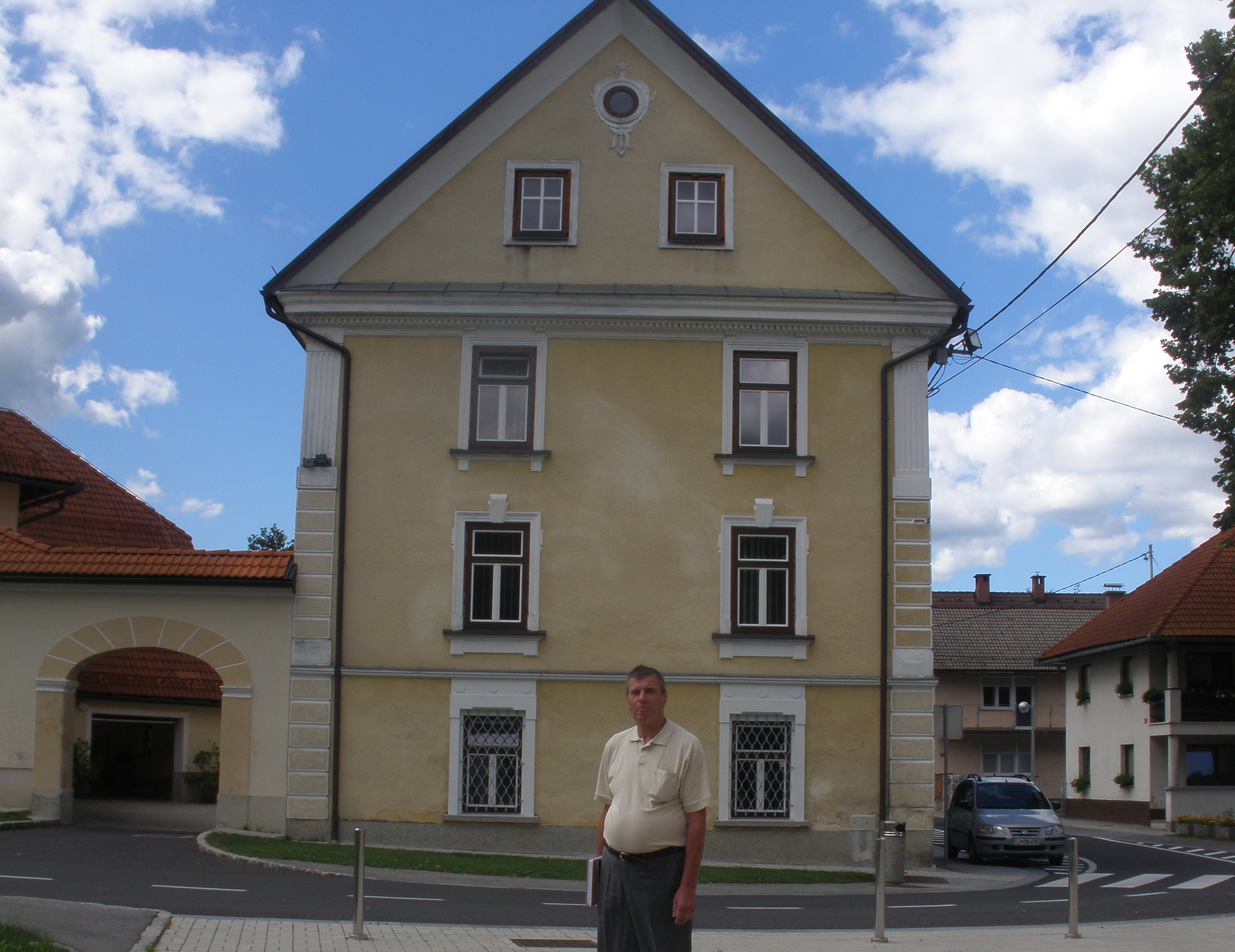 Parochial house of Sodražica, Slovenia